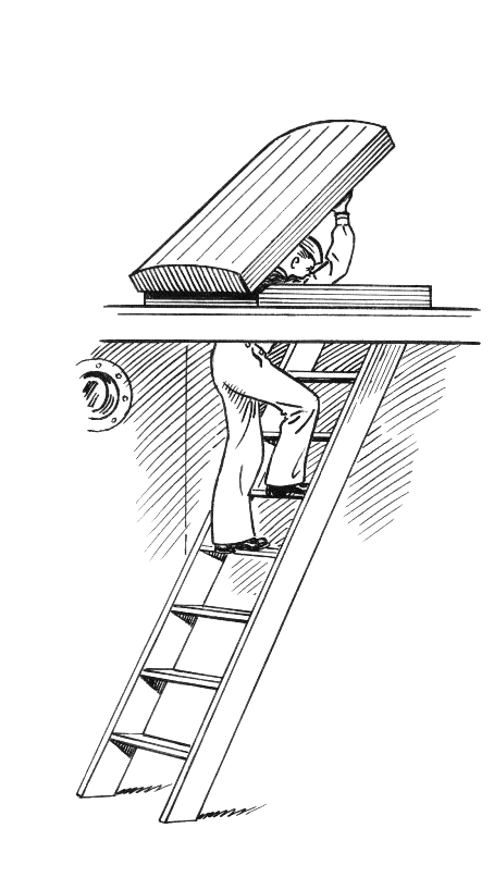 line art drawing of companionway.